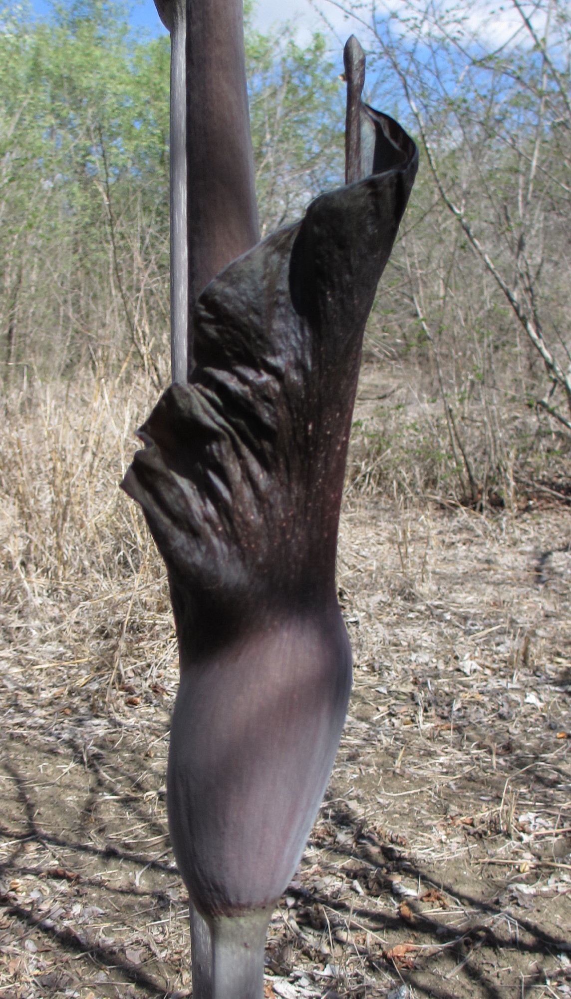 In the wild in a coastal thorn bush vegetation in Cabo Delgado Province of Mozambique. The base of the sterile part of the spadix is 3,5 cm in diameter, and thus corresponds with the typical subspecies (maximus), rather than the fischeri subspecies (supposed to be 1.5-2,5 cm in diameter, according to N.E. Brown in Fl.Trop.Afr.). The dark colour of the spathe, in combination with the verrucose inside of the base of the spathe, corresponds with A. leopoldianus in the same publication (Brown, 1901). A. leopoldianus is now considered a synonym of A. angolensis. Brown, however, distinguishes the 2 species by the texture of the inside of the spathe - verrucose in A. leopoldianus (as in A. maximus and A. fischeri) and pubescent in A. angolensis.